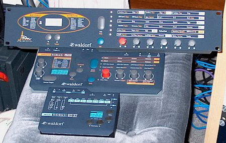 Waldorf Music Pulse atop 4-pole atop EQ-27. Photo by Till Kopper (ich at till-kopper dot de).